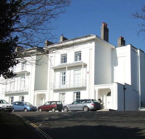 Pennsylvania Park, Exeter The "piece de resistance of Regency Exeter", say Cherry and Pevsner of this tall terrace built in 1821. This view is from Beech Avenue of the eastern end of the six houses; these have a section set back to give the illusion of being detached. They command a fine view over the city.